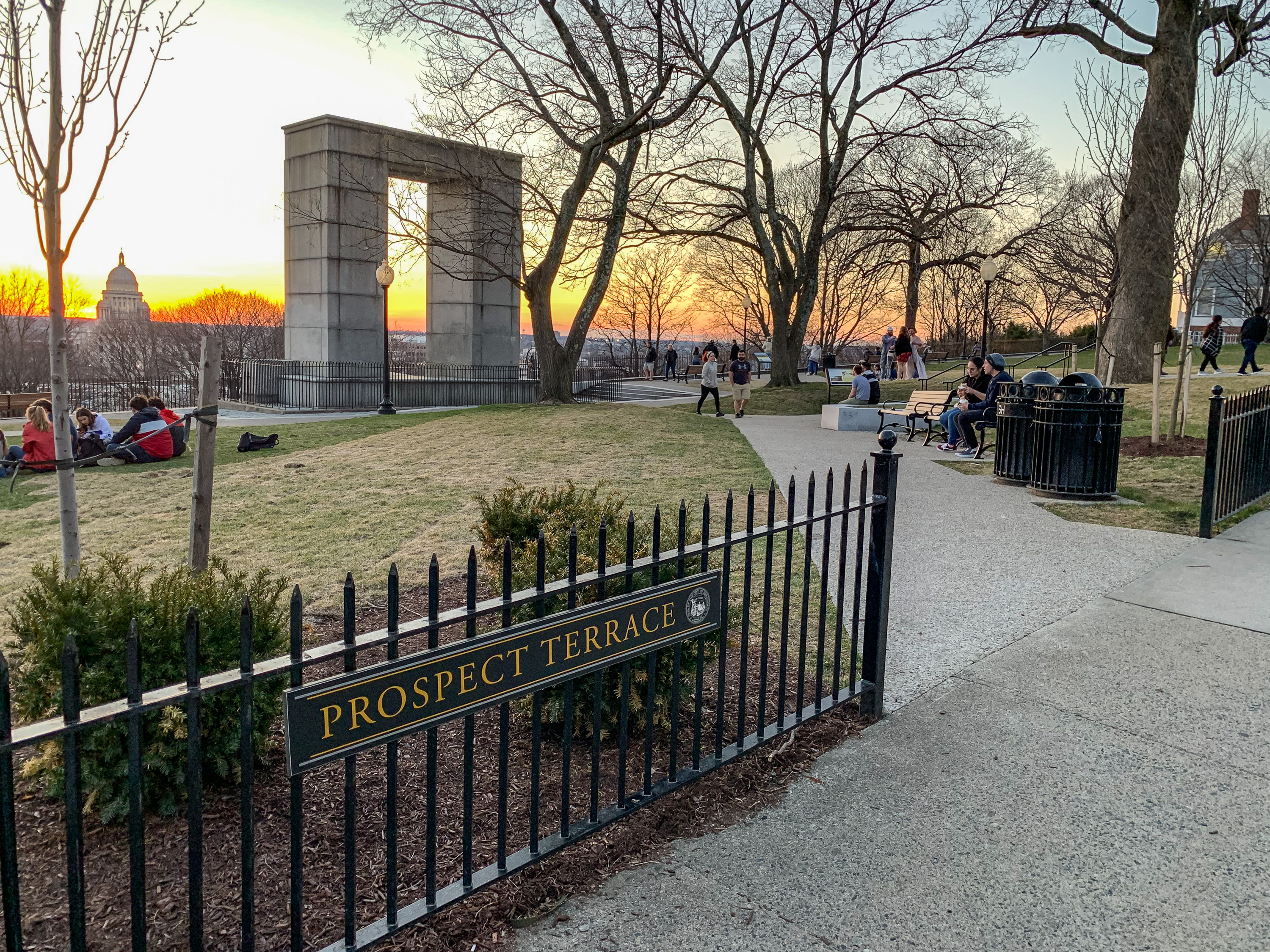 Sunset at Prospect Terrace Park, Providence RI. The park has recently been renovated with new paving, benches, and signage.